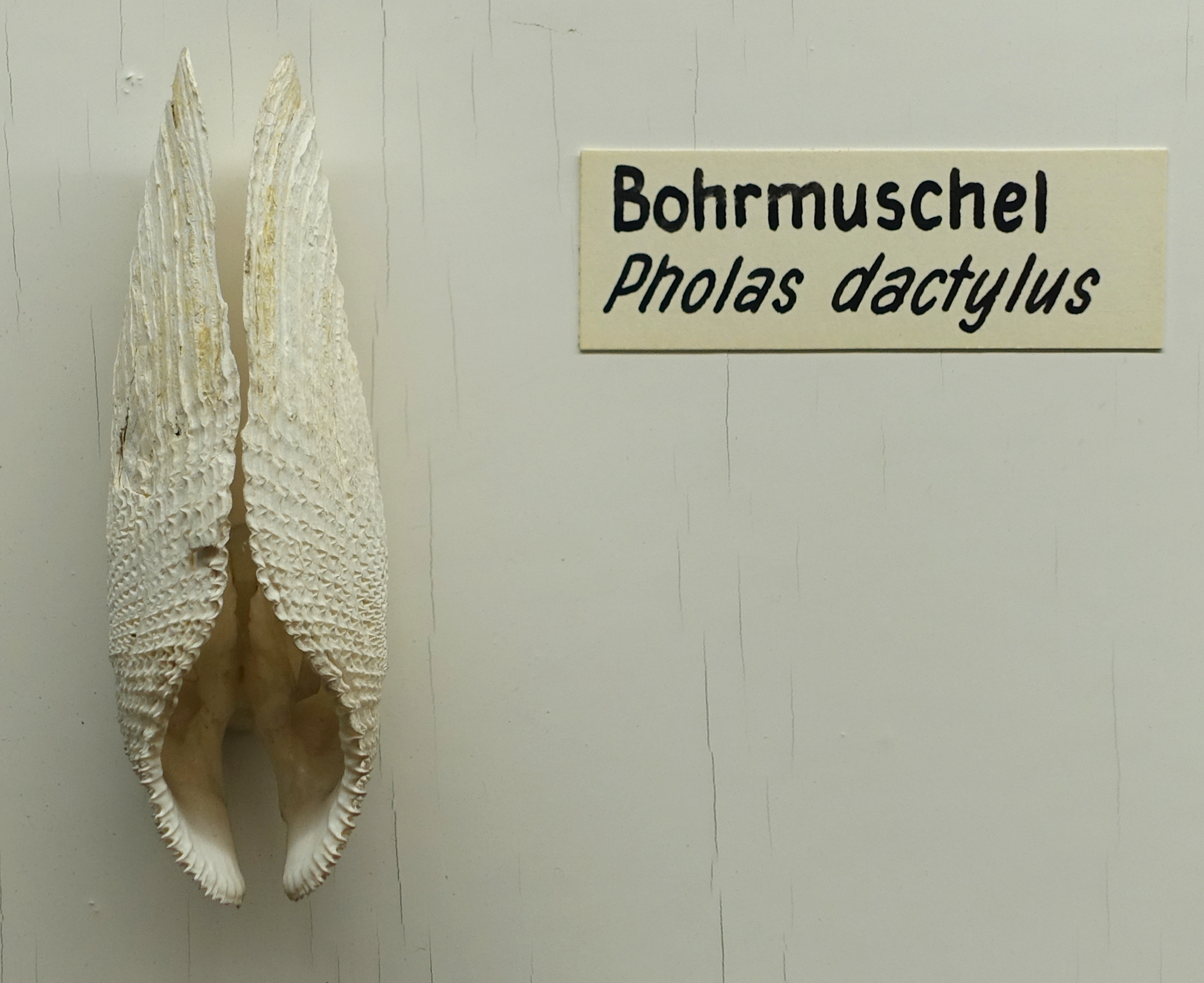 Exhibit in the Naturhistorisches Museum, Braunschweig, Germany.